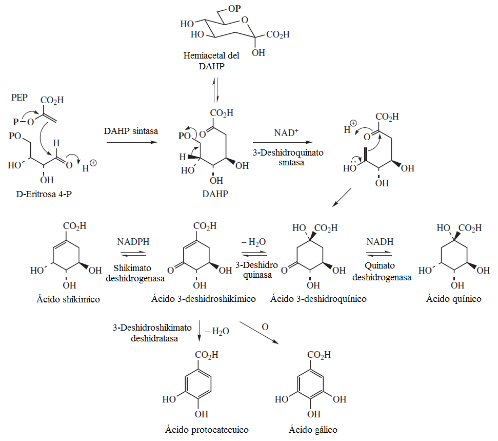 Shikimic acid pathway scheme